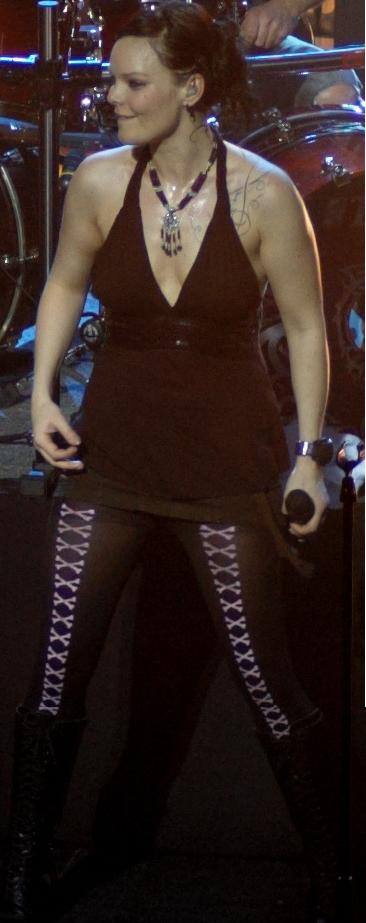 Description Anette Olzon from Nightwish Date2 September 2008SourceImage:Nightwish- palais.jpgAuthorcrop by Ms. Naz, original picture by Nathan Jones Licensing Anette Olzon from Nightwish